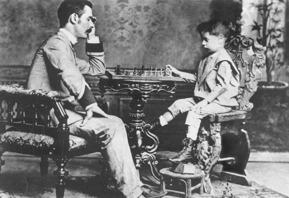 A four-year-old Capablanca playing chess with his father in 1892 (Capablanca jogando com seu pai aos quatro anos de idade).